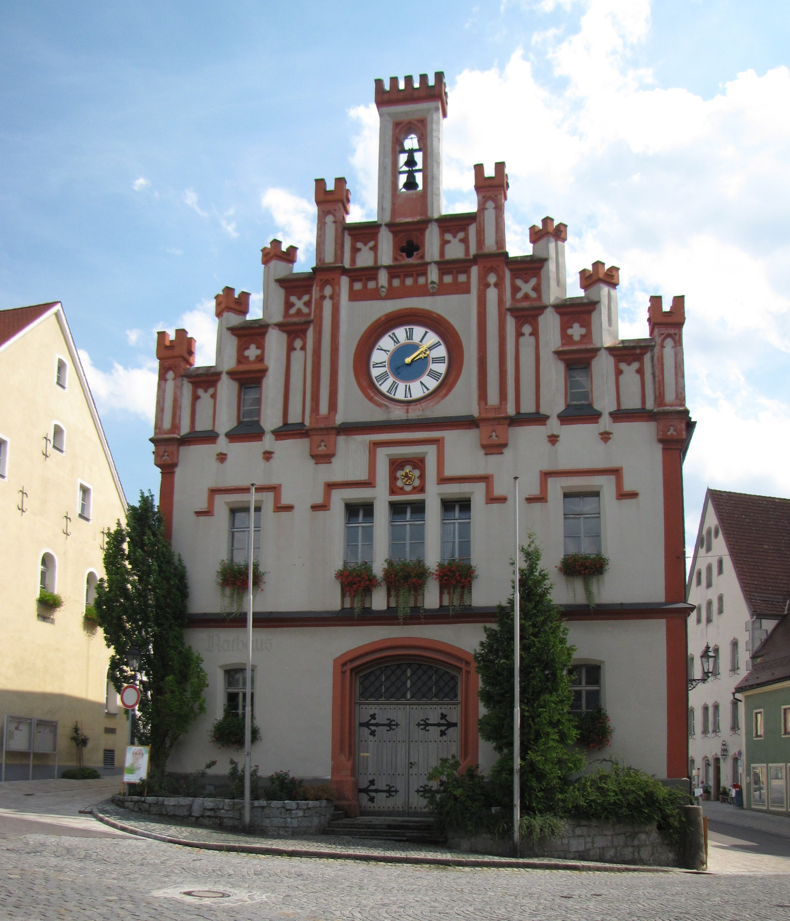 Velburg townhall